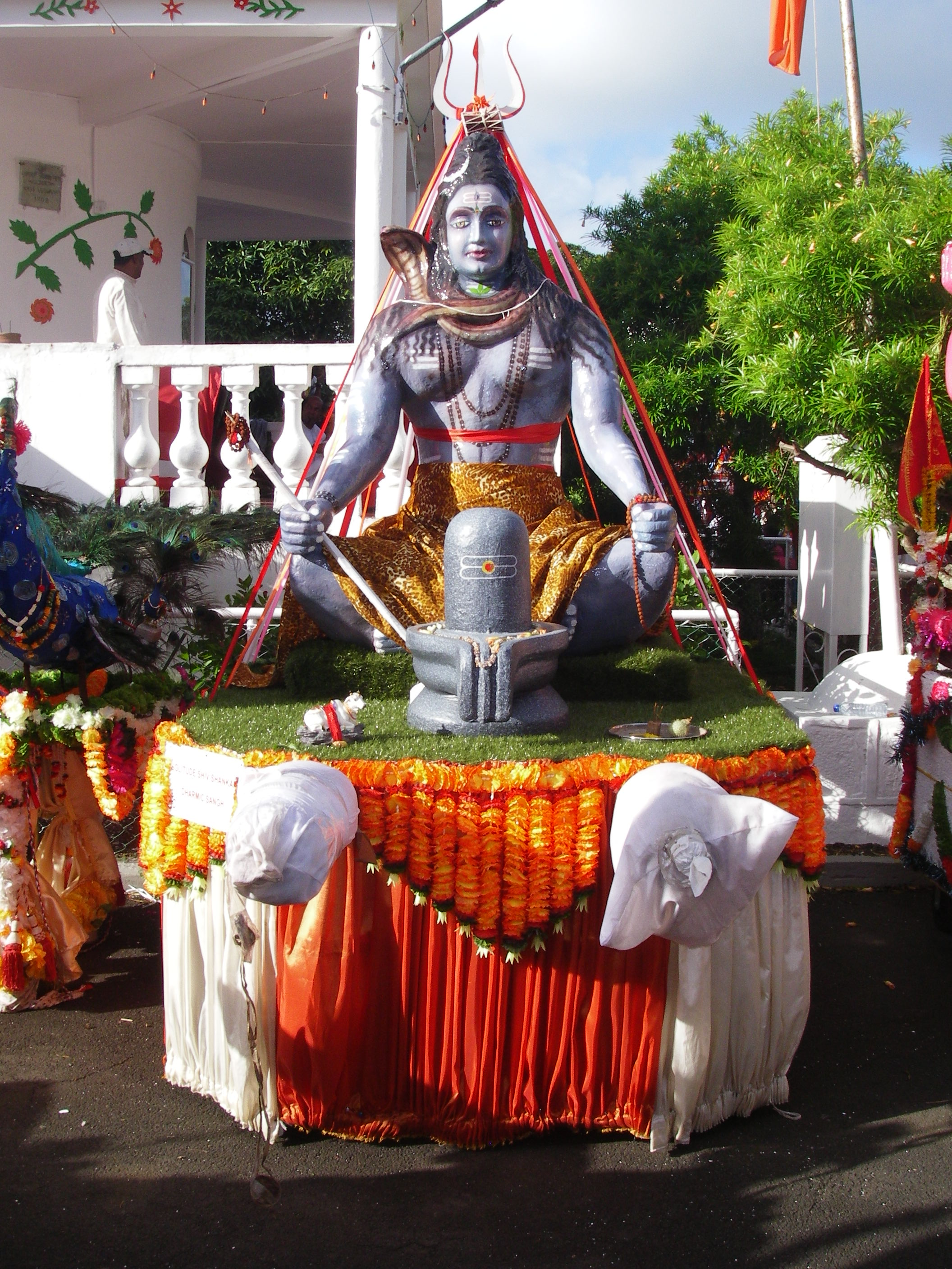 A 'kanwar' in the temple yard.